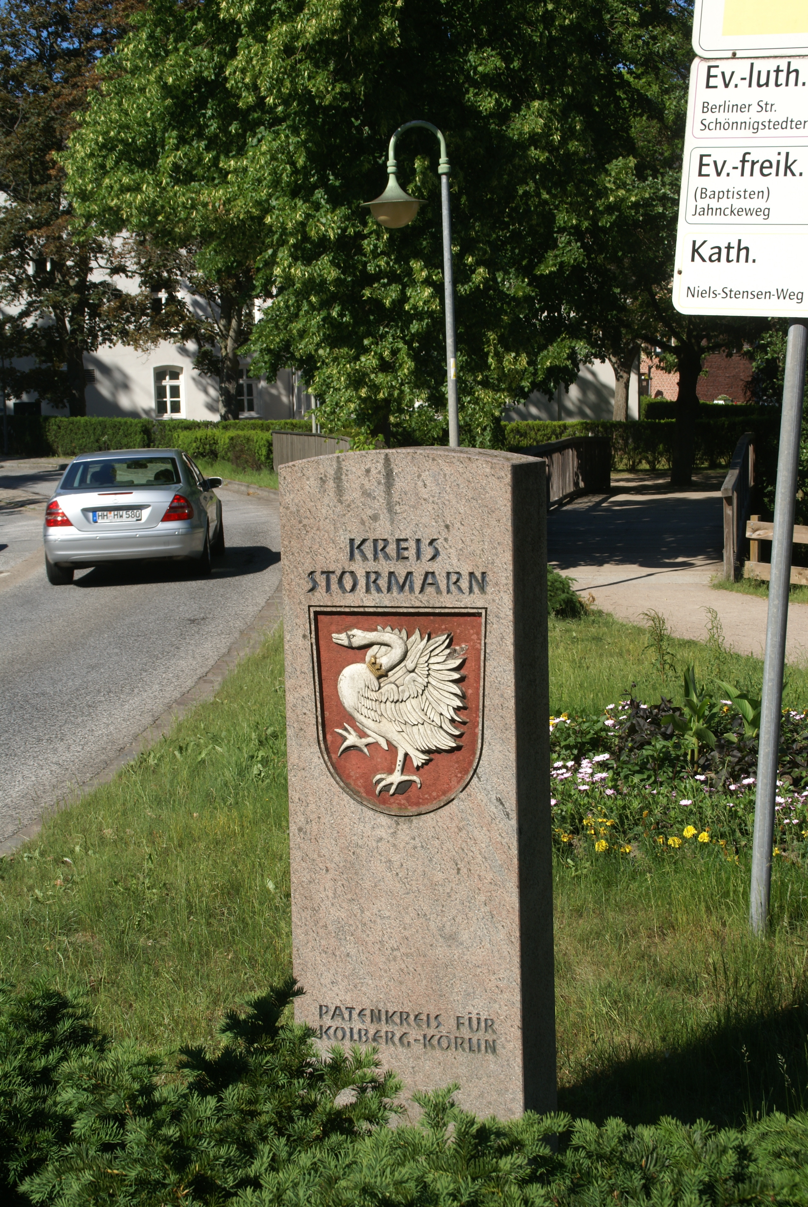 Reinbek, Germany: Milestone at the border of the district of Stormarn